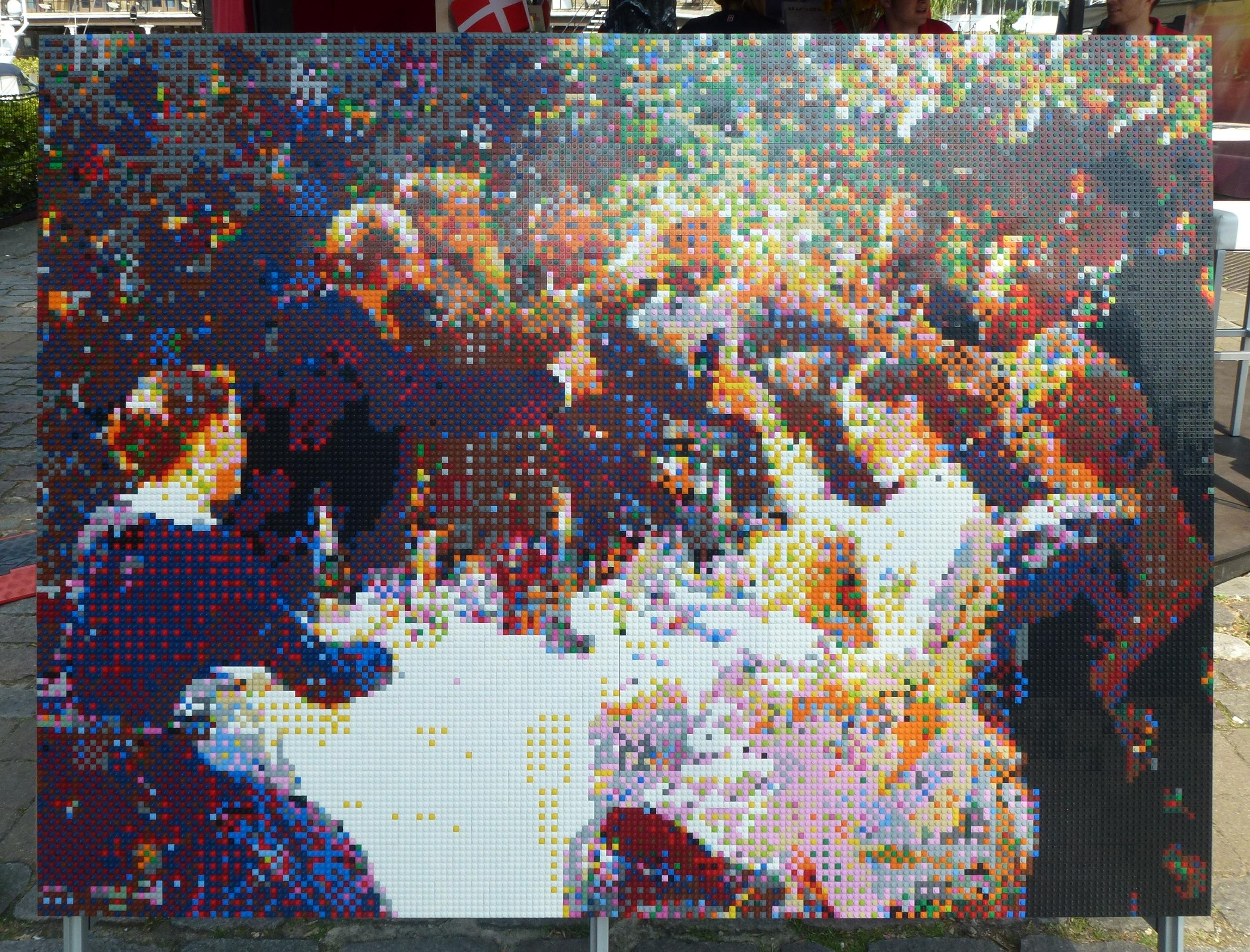 Peder Severin Krøyer's painting Hip, Hip, Hurrah! recreated as a Lego mosaic at the IMAGINATION Danish festival at St Katharine Docks, in August 2012.